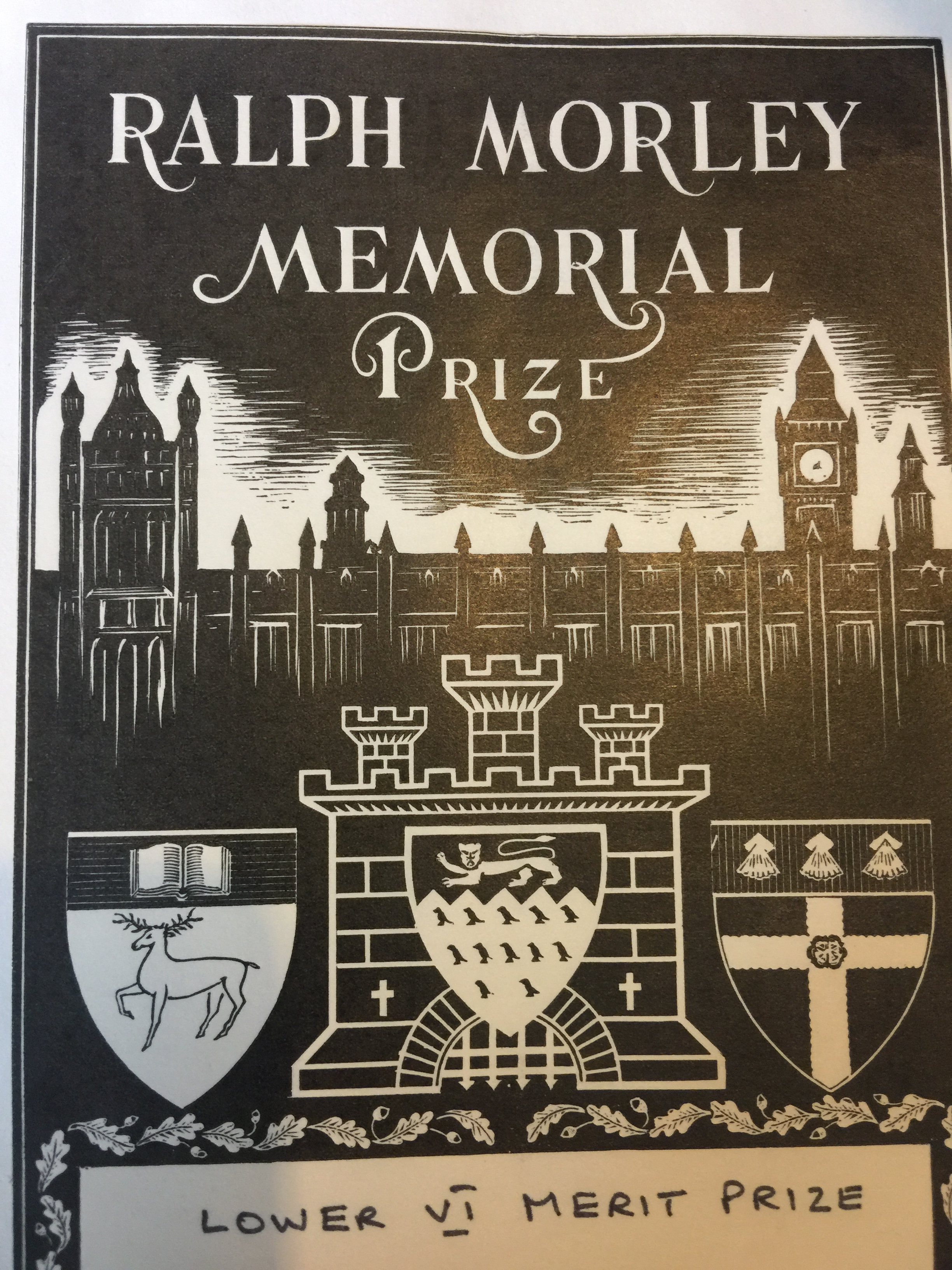 Ralph Morley Memorial Prize. The prize was a book token, this sticker, was affixed at the front of the book purchased with the token. It shows an image of the house of commons, representing Ralph's political career.